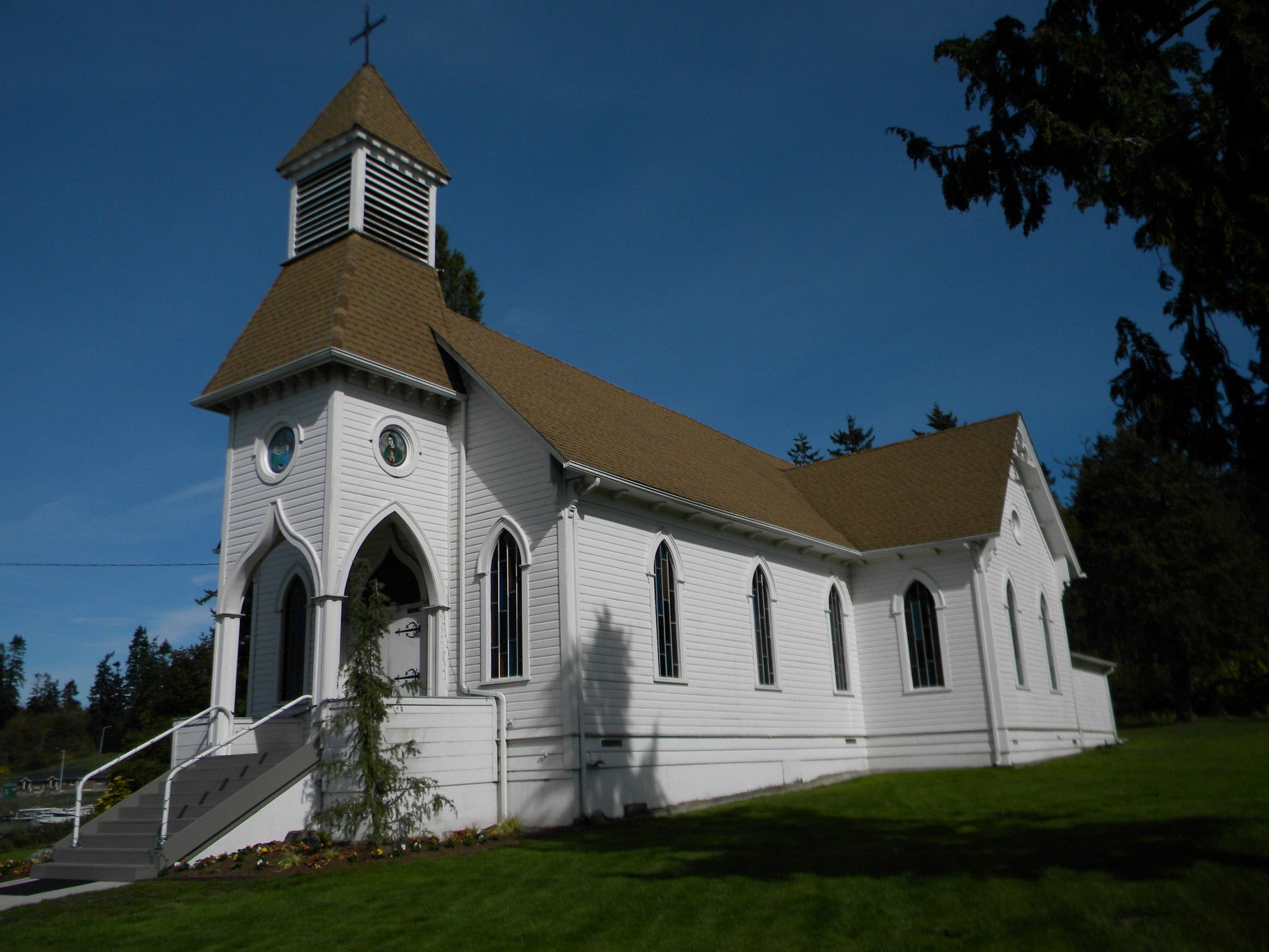 National Register Of Historic Places Site 76001911